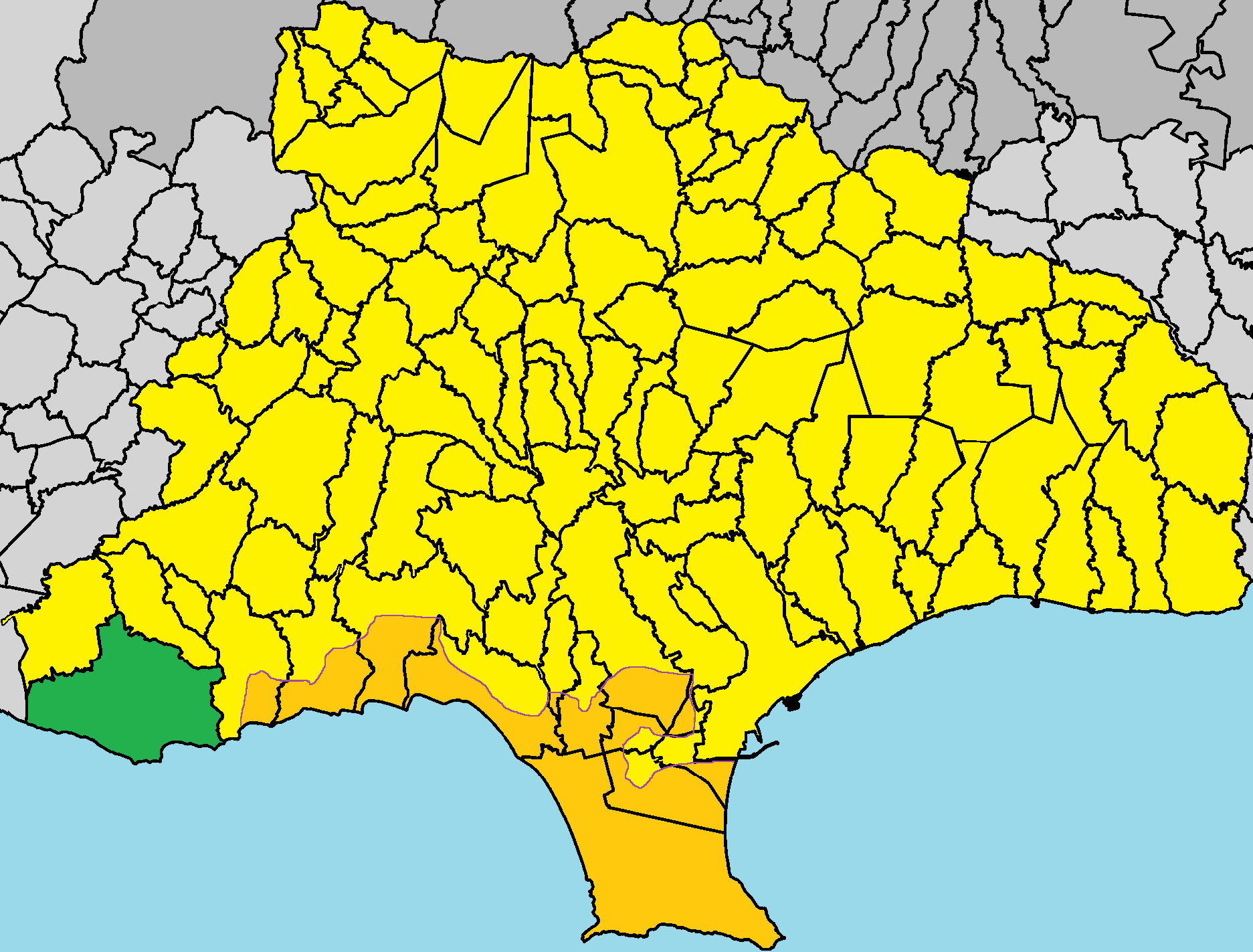 Pissouri in Limassol District.